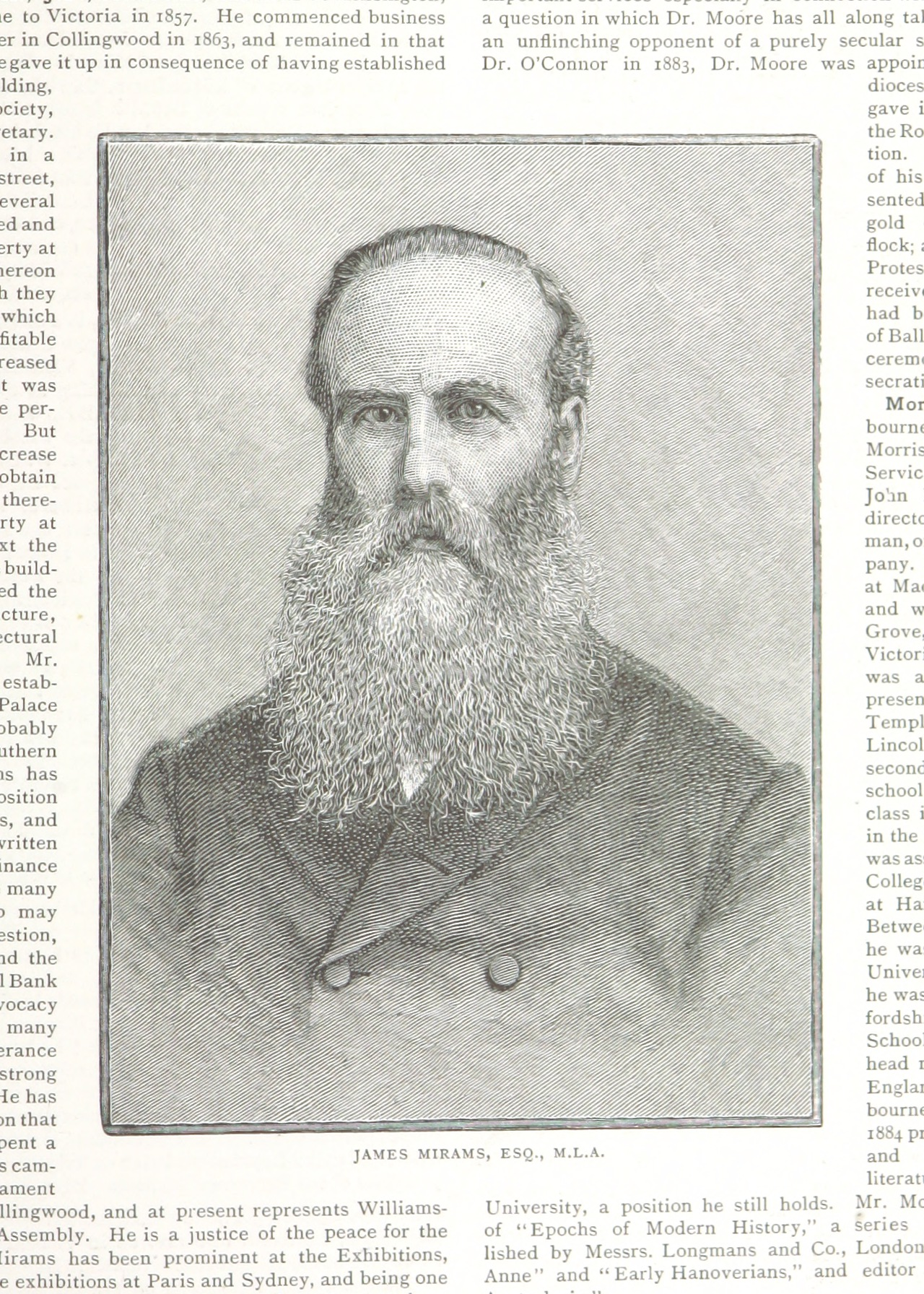 Australian farmer and politician James Mirams.